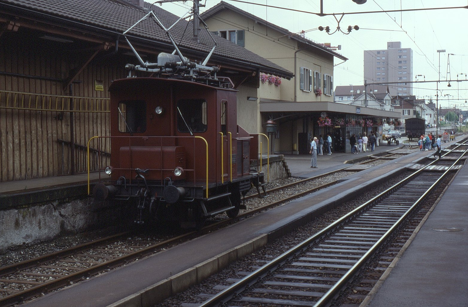 SBB electric shunter class Tem¹ no. 271 at Amriswil on 3 August 1988.